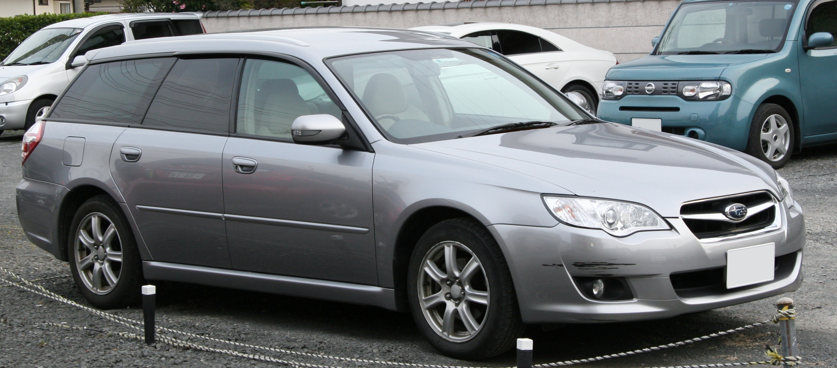 Subaru Legacy 2.0i Touring Wagon